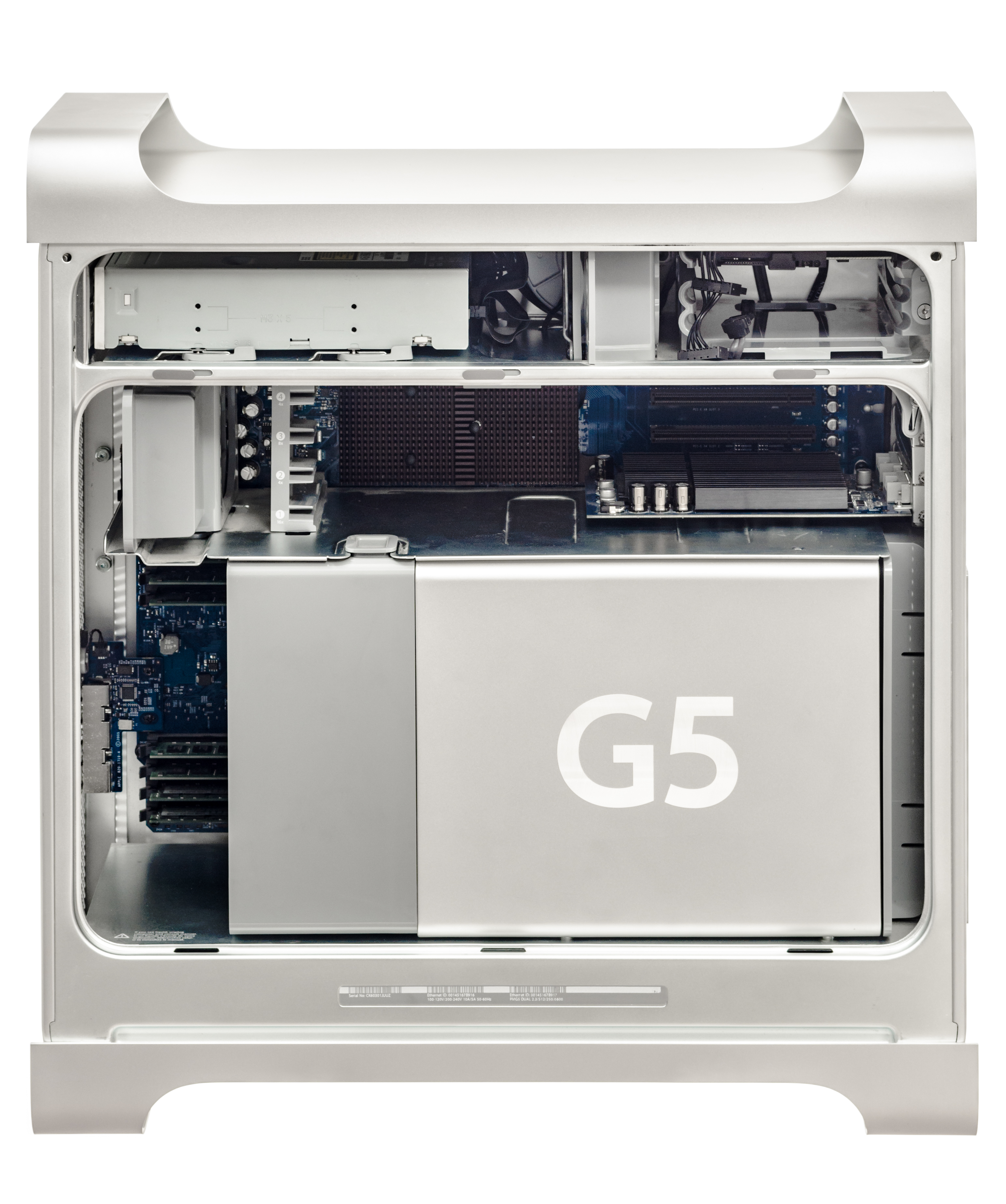 Apple Power Macintosh G5 Dual Core (2.3 GHz) Late 2005 – M9591LL/A.